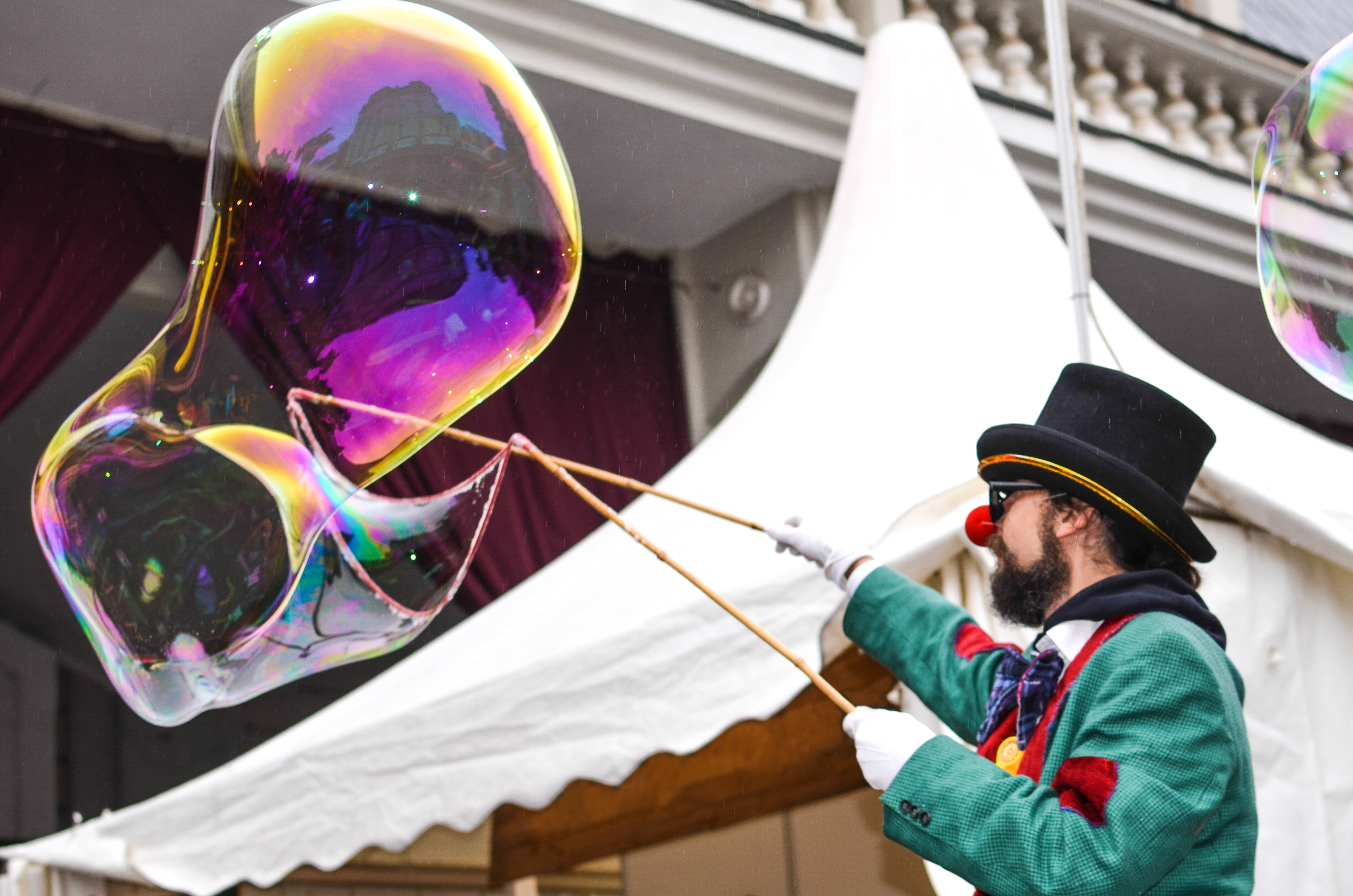 Soap bubble is an object. It belongs to physical phenomena.. It occurs because the water surface is the surface tension. This facility provides elastychnist. To state the bubbles were more stable,in the water is the dissolution of surfactants, which are sufficient polarity of molecules. Usually for this purpose use soap. This allows a bubble to exist longer period of time. This photo shows a soap bubble, which tends to adopt a spherical shape, but it meets air hurdle. The spherical shape can be distorted by air flow and process during which there inflating bubbles. Despite on the bubble's distortion, its volume remains the same. The soapy's film area grows through the surface curvature.Bubble's spherical shape appears because of surface tension. The bubble's shape will be close to spherical if weather is fine and without wind. Interference global wave affects the iridescent colors of soap bubbles. Has its influence and thickness of soap film. High-quality lighting surrounding objects ensures that they are displayed on the surface of the bubbles. Photo suited to illustrate articles on the bubble and its physical properties.